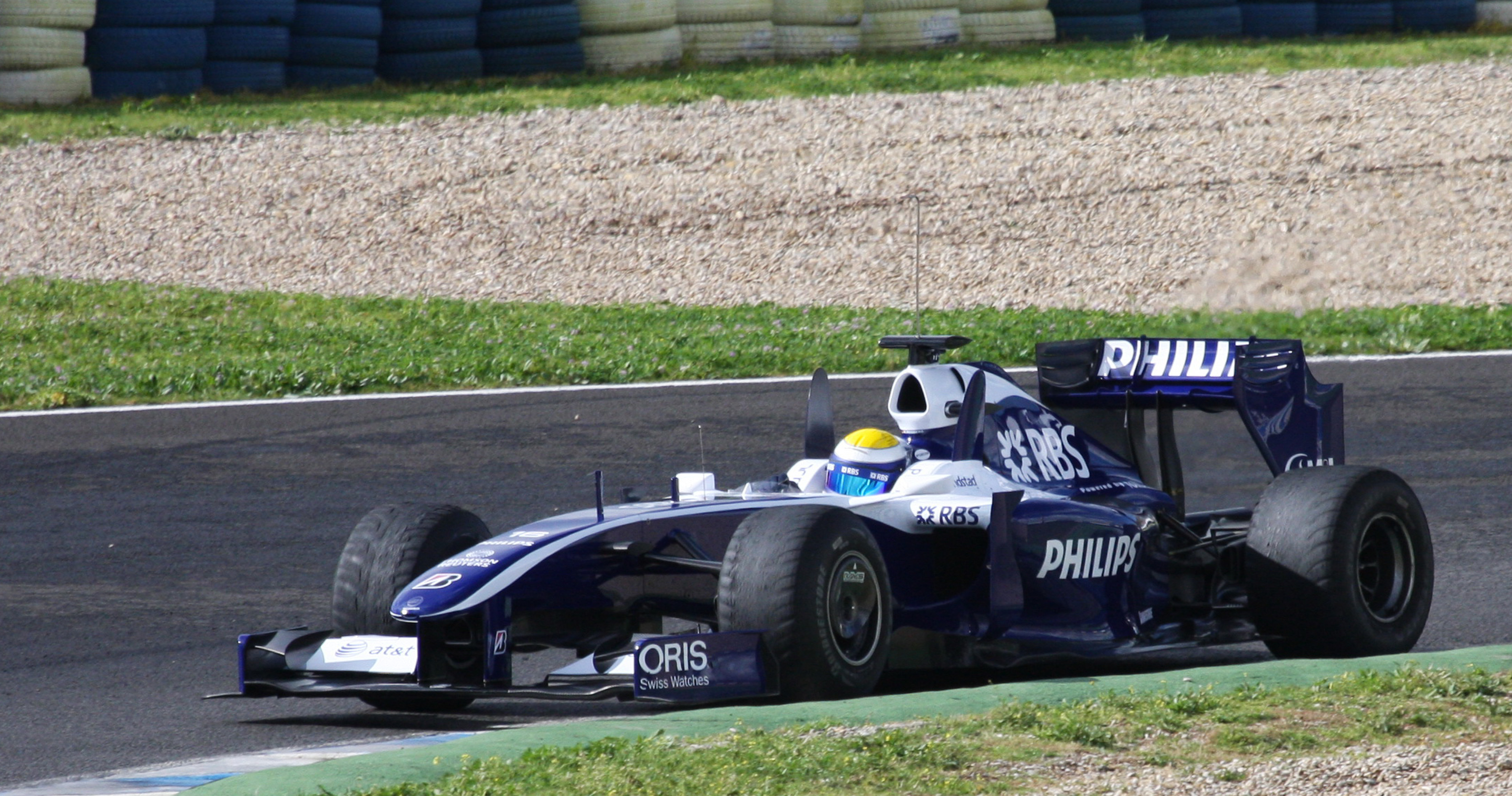 Nico Rosberg in the Williams FW31, F1 testing session, Jerez 3-Mar-2009